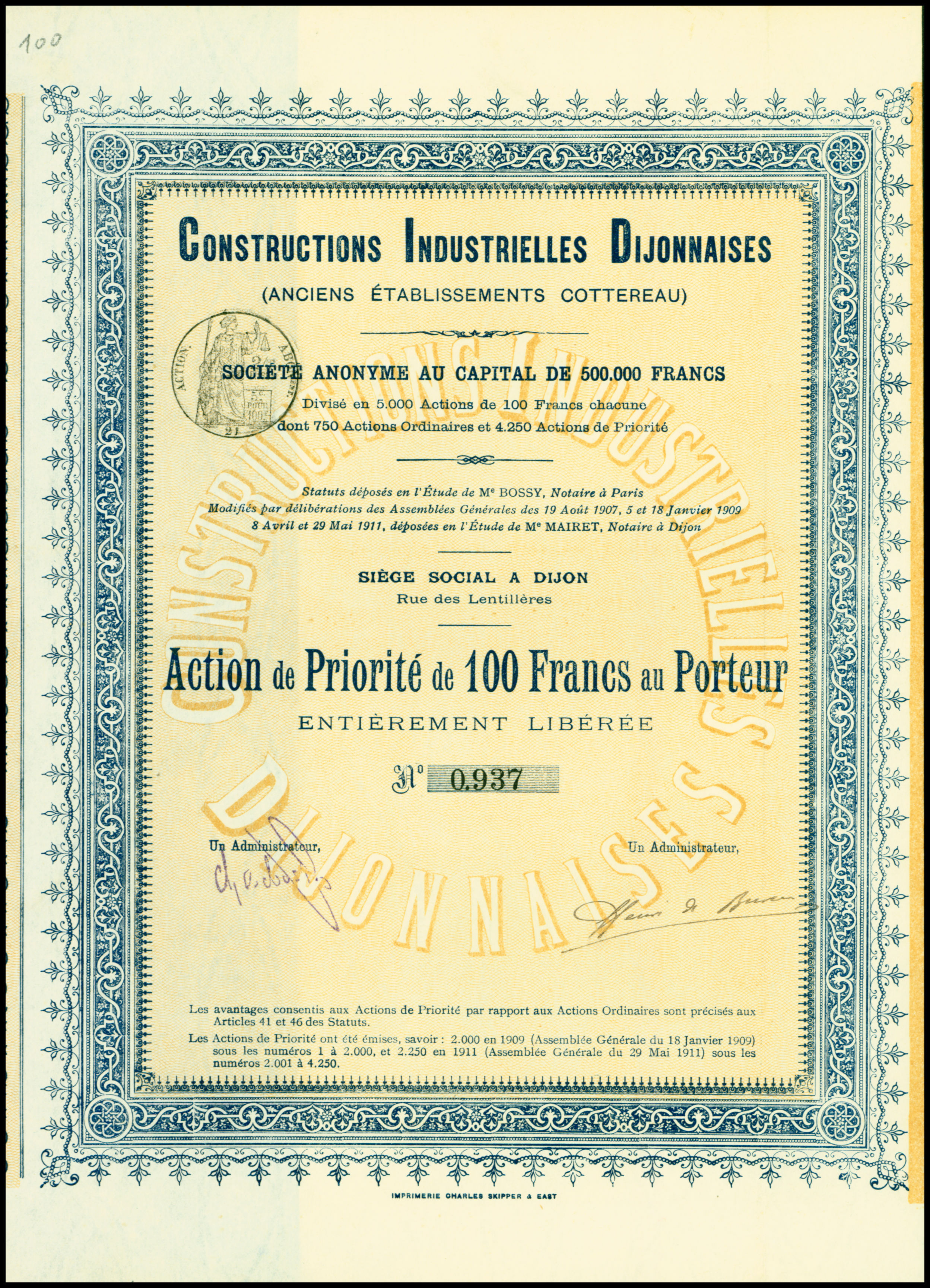 Share of the Constructions Industrielles Dijonnaises S. A., issued 29. May 1911